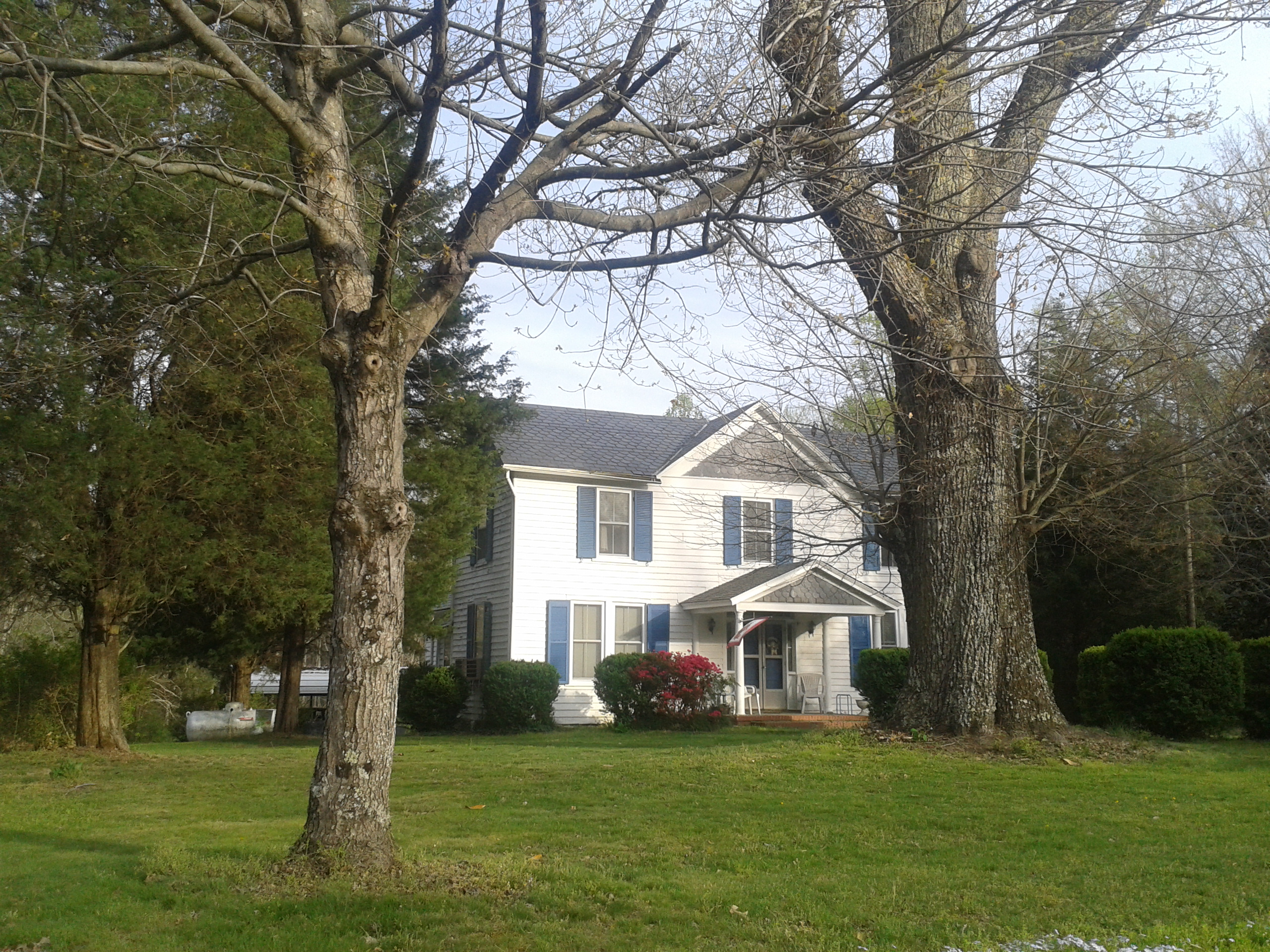 House, Arvonia, Buckingham County, Virginia